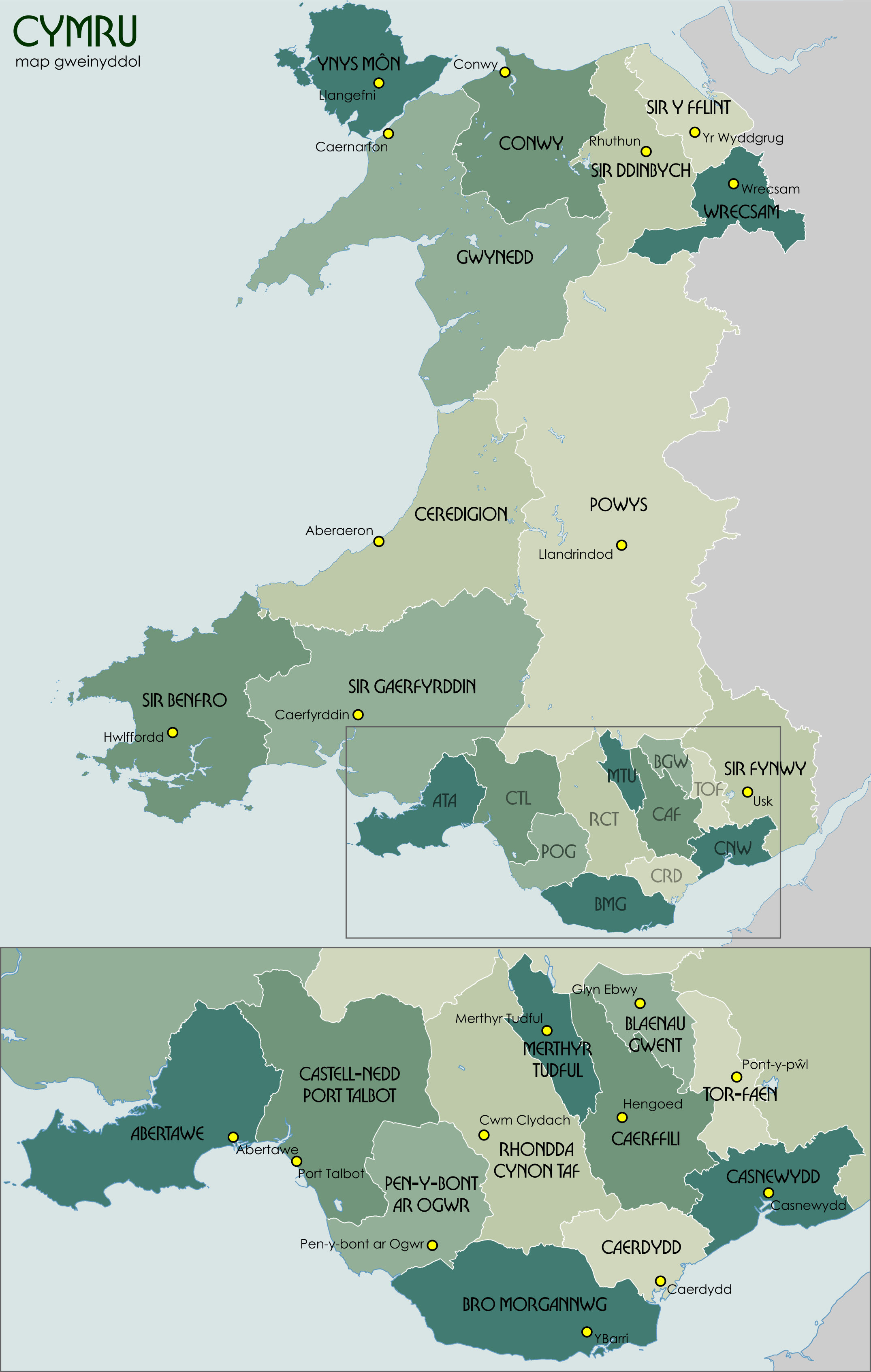 Welsh language only version of Wales administrative map